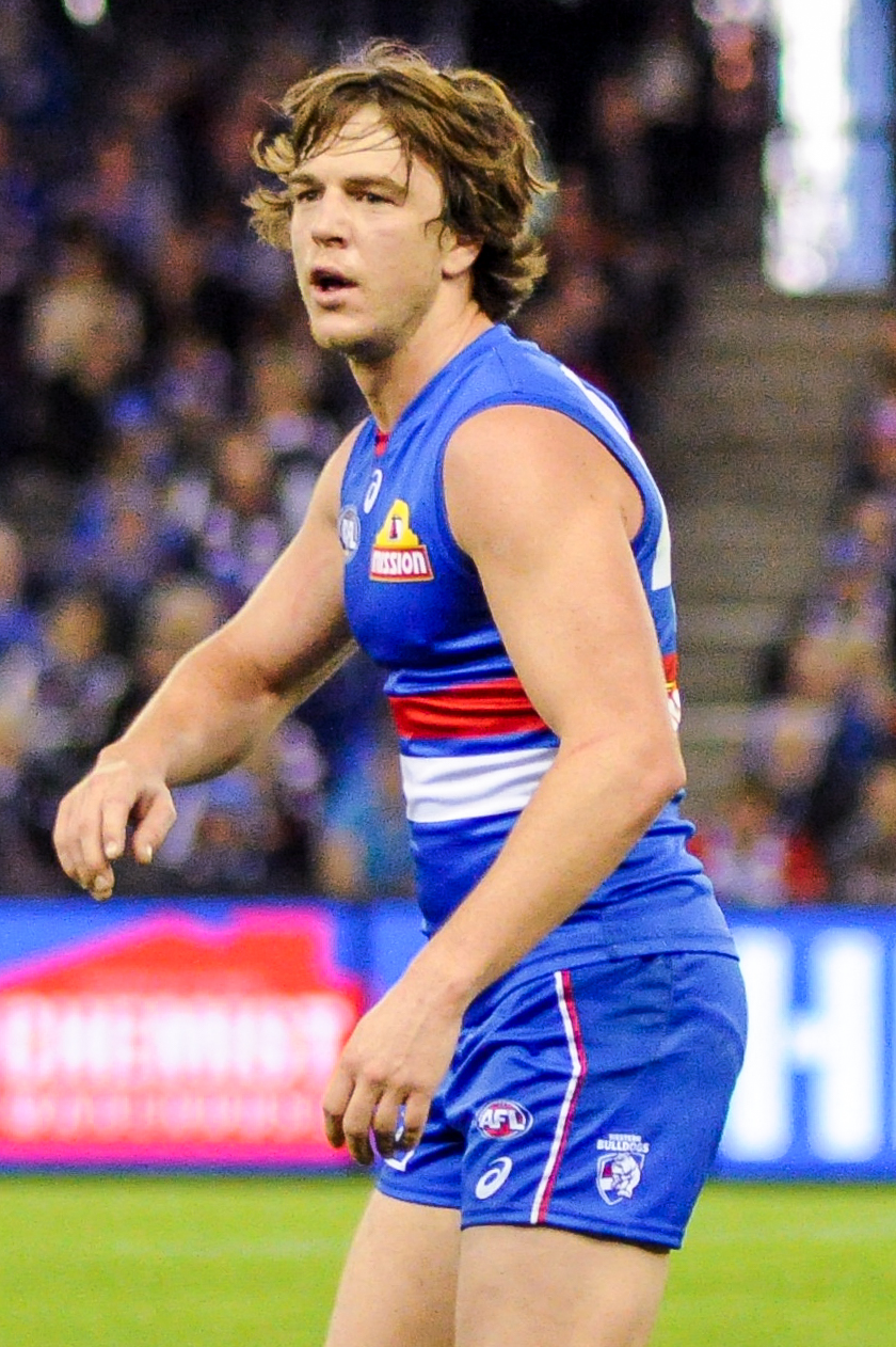 Liam Picken during the AFL round thirteen match between the Western Bulldogs and Melbourne on 18 June 2017 at Etihad Stadium in Melbourne, Victoria.